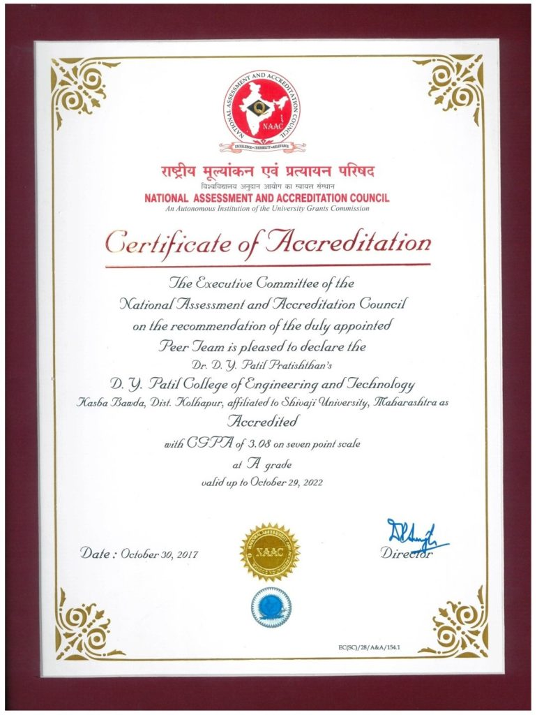 Certificate of the NAAC certification